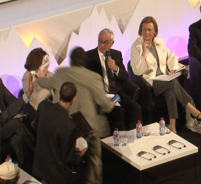 Pie smash to president of Navarre Yolanda Barcina, protesting against High Speed Railway across the Pyrenees, Toulouse, France